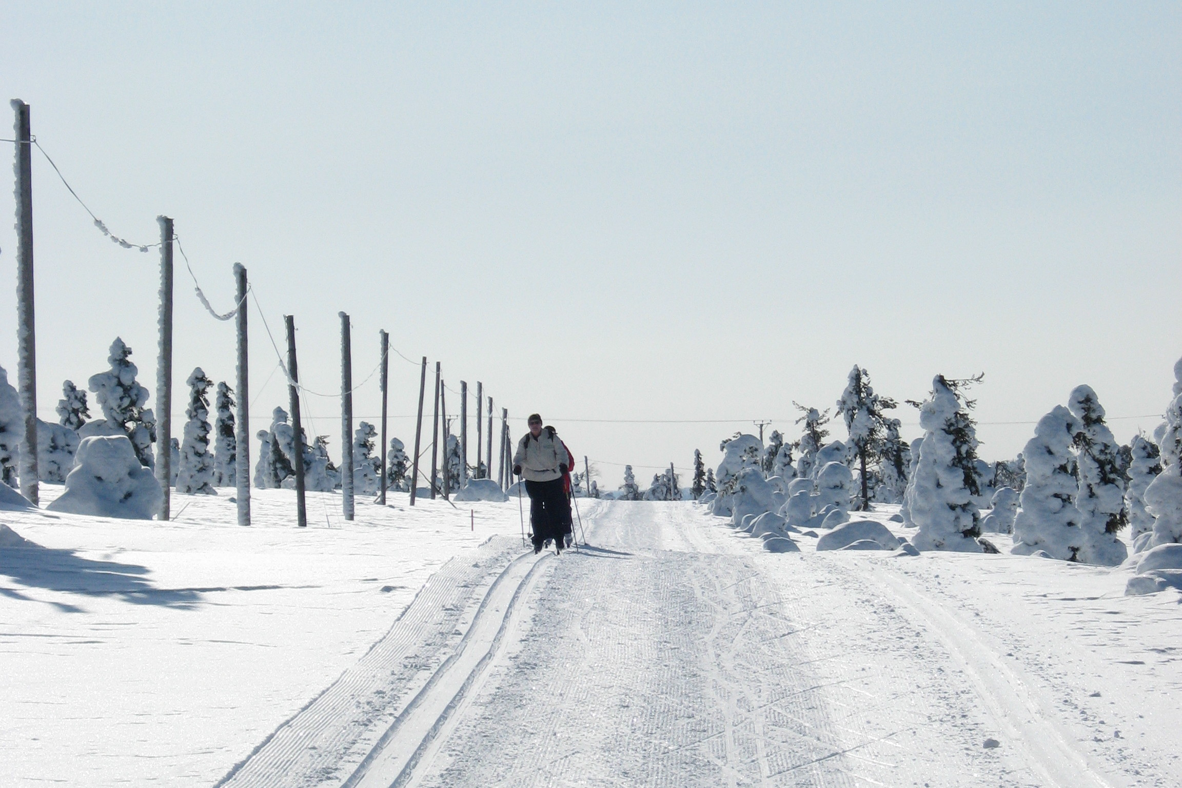 Sammaltunturi old road line, Muonio, Finland.